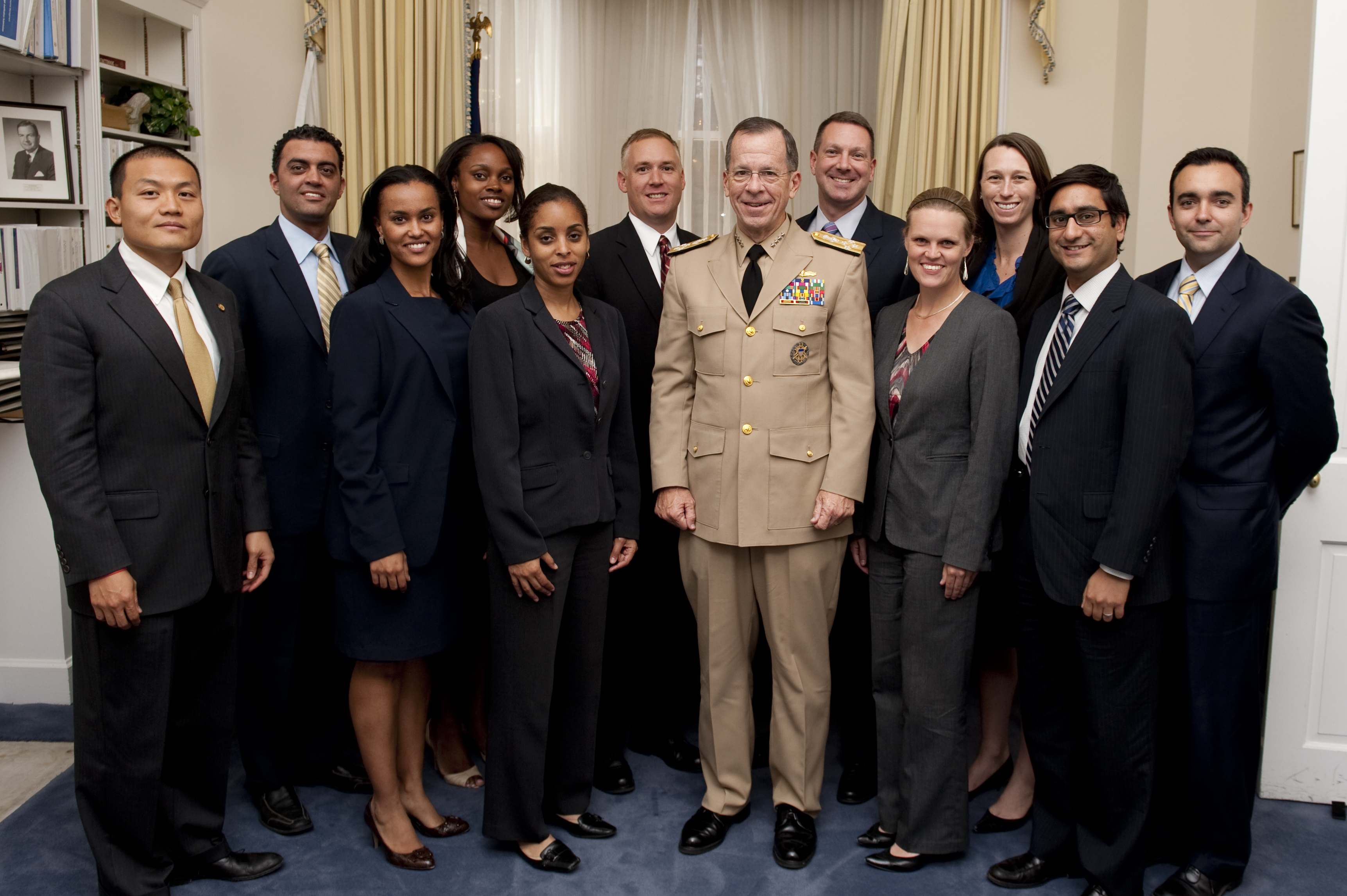 100707-N-0696M-134 Adm. Mike Mullen, chairman of the Joint Chiefs of Staff visits with White House Fellows on July 7, 2010. (DoD photo by Mass Communication Specialist Chad J. McNeeley/Released)